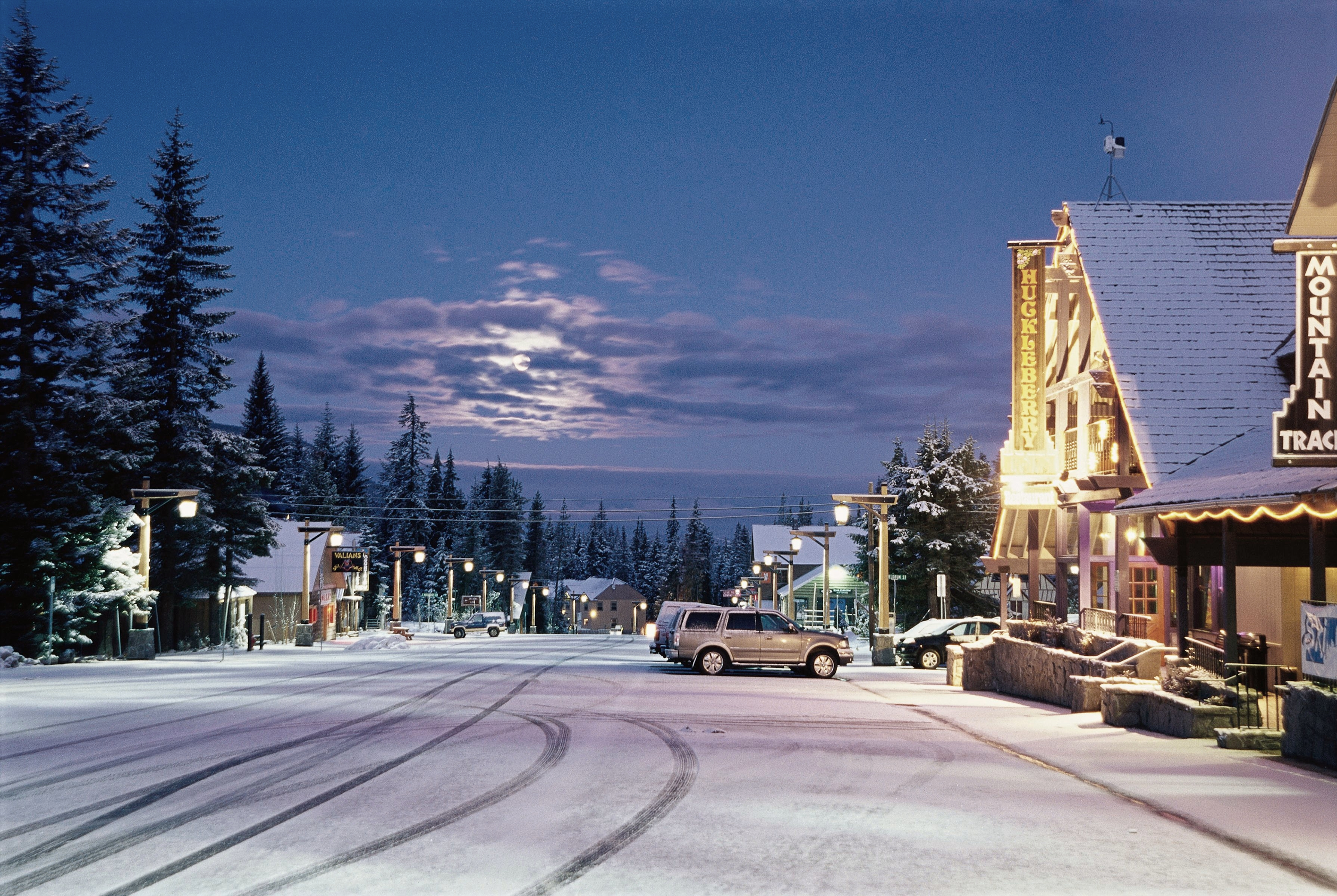 Photo Credit